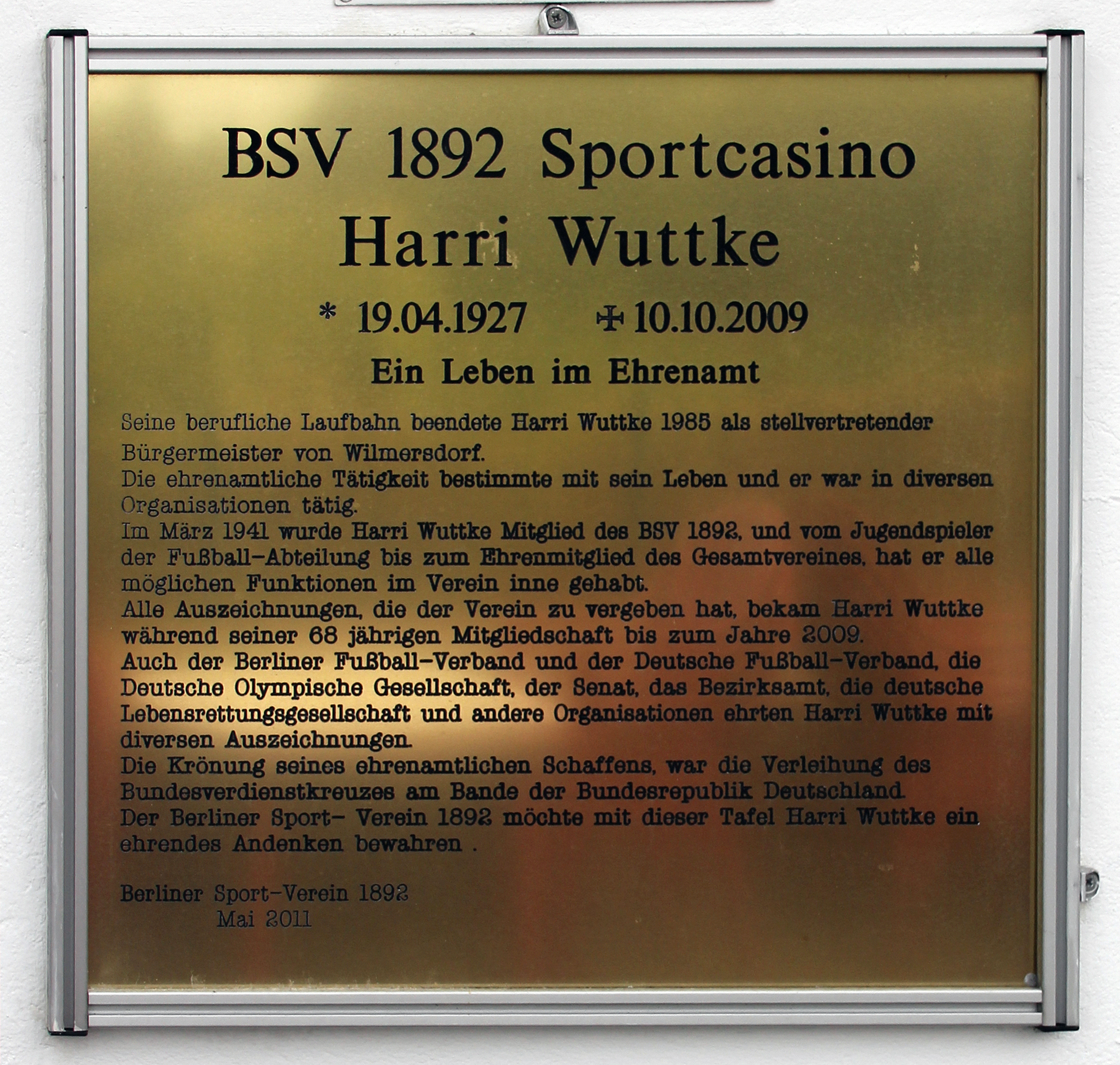 Memorial plaque, Harri Wuttke, Fritz-Wildung-Straße 9, Berlin-Schmargendorf, Deutschland